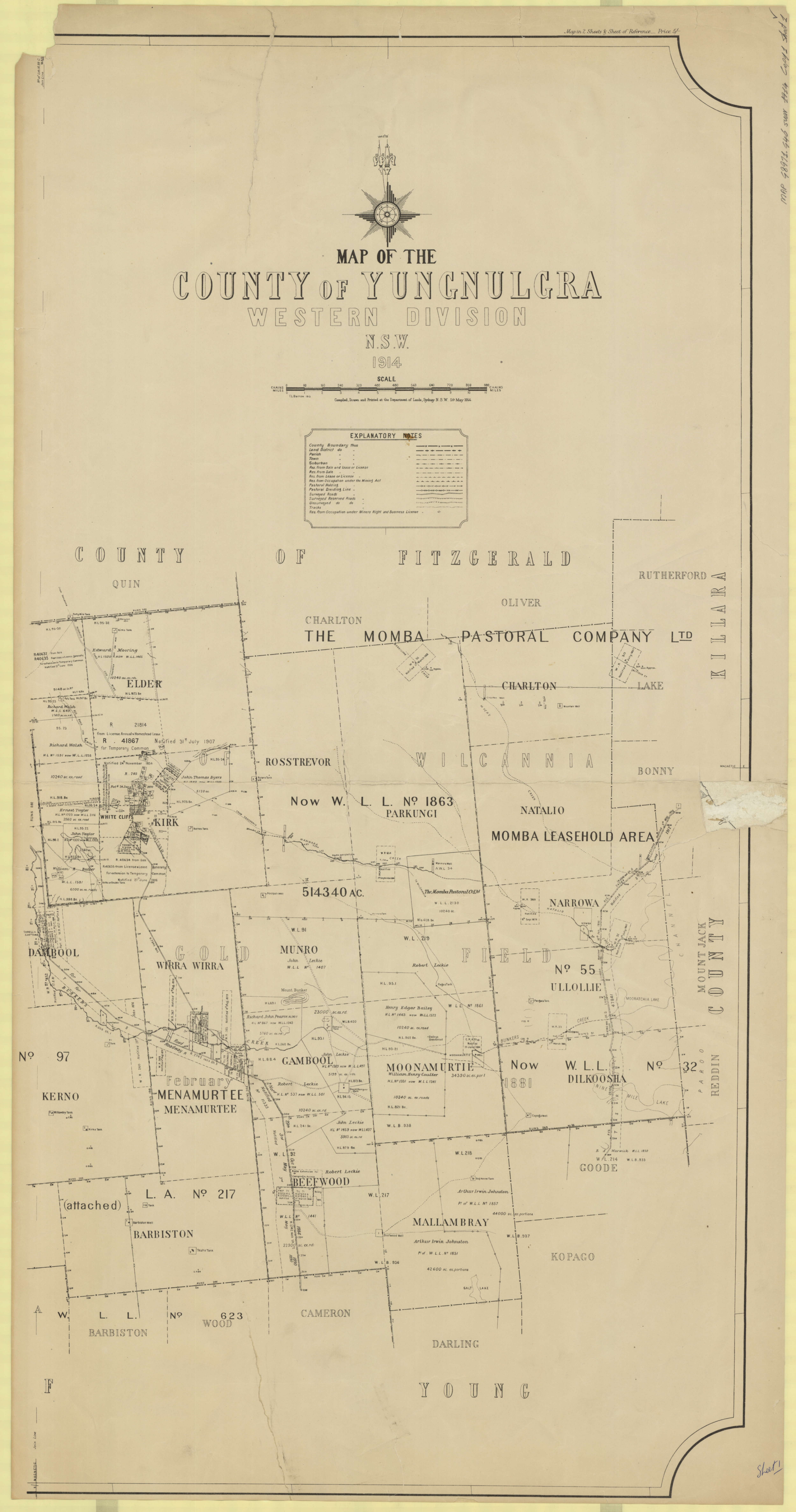 Parish subdivision map of Yungnulgra County, New South Wales, Australia